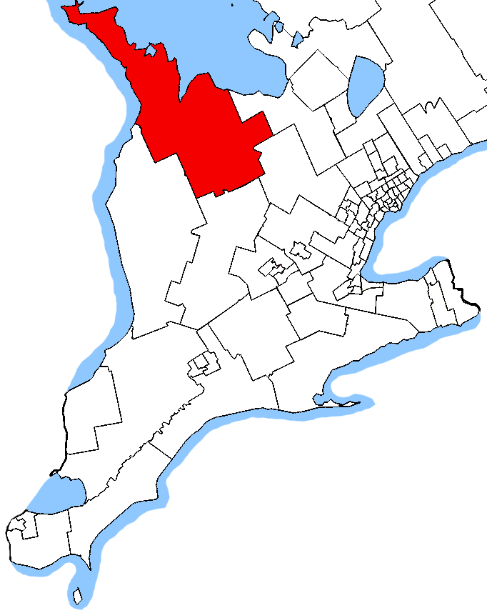 Map of the Bruce—Grey—Owen Sound electoral district. Based on Earl Andrew's maps, created by SimonP.